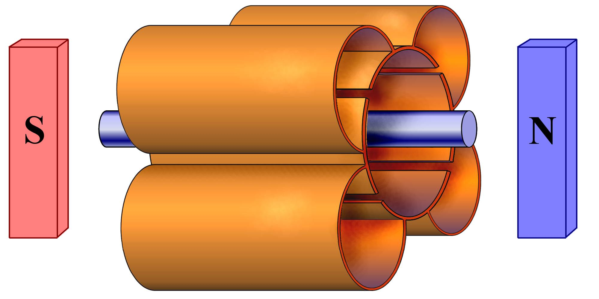 Construction of the anode of a multi-cavity magnetron described by Hans E. Hollmann in his patent in 1935